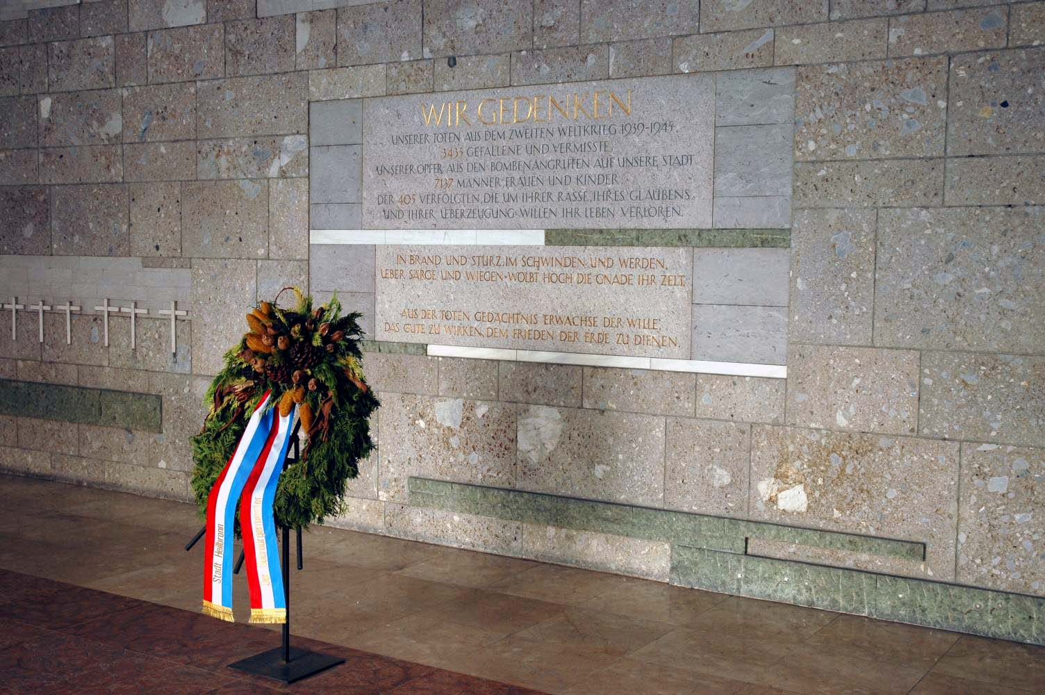 WW II and 3rd reich memorial in Heilbronn.